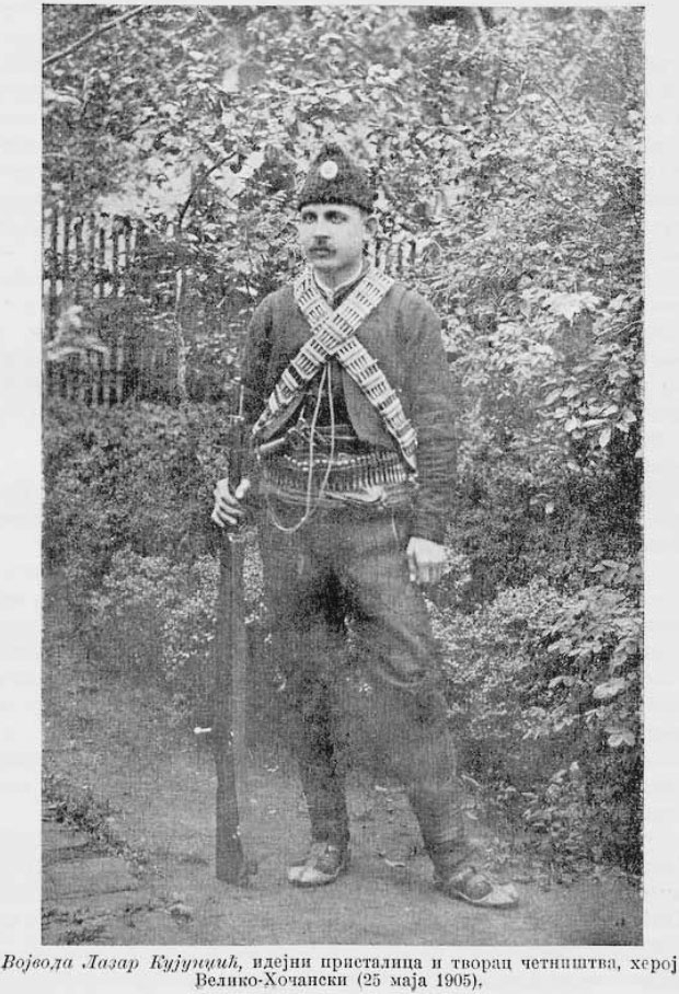 Lazar Kujundžić (1880-May 25, 1905). Photography taken in a series (see also Pavle Mladenović-Čiča)